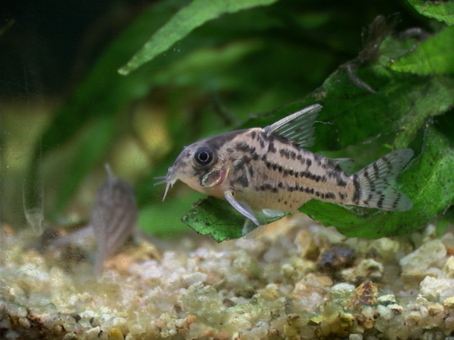 Cory schwartzi